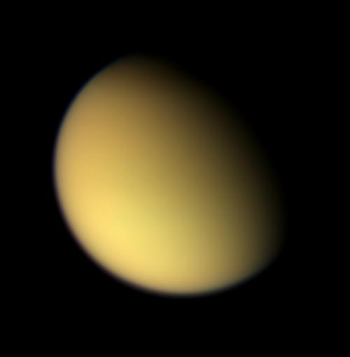 As Cassini approached Titan on Aug. 21, 2005, it captured this natural color view of the moon's orange, global smog. Titan's hazy atmosphere was frustrating to NASA Voyager scientists during the first tantalizing Titan flybys 25 years ago, but now Titan's surface is being revealed by Cassini with startling clarity (see Titan Mosaic -- East of Xanadu ). Images taken with the wide-angle camera using red, green and blue spectral filters were combined to create this color view. The images were acquired at a distance of approximately 213,000 kilometers (132,000 miles) from Titan and at a Sun-Titan-spacecraft, or phase, angle of 55 degrees. Resolution in the image is about 13 kilometers (8 miles) per pixel.